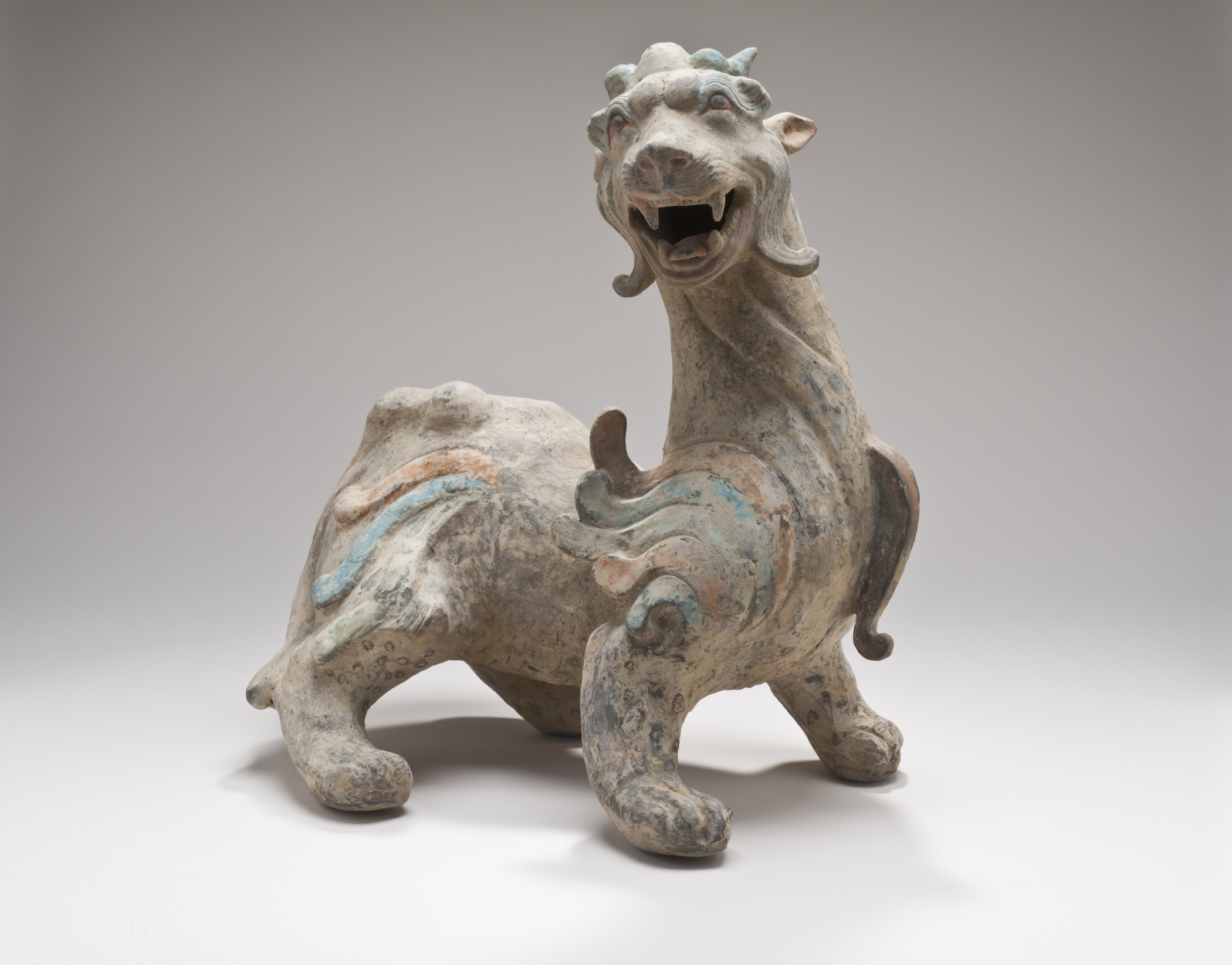 China, Eastern Han dynasty, 25-220 Sculpture Molded earthenware with traces applied decoration and paint Gift of Elly Nordskog and Family in memory of Bob Nordskog (AC1997.1.1) Chinese Art